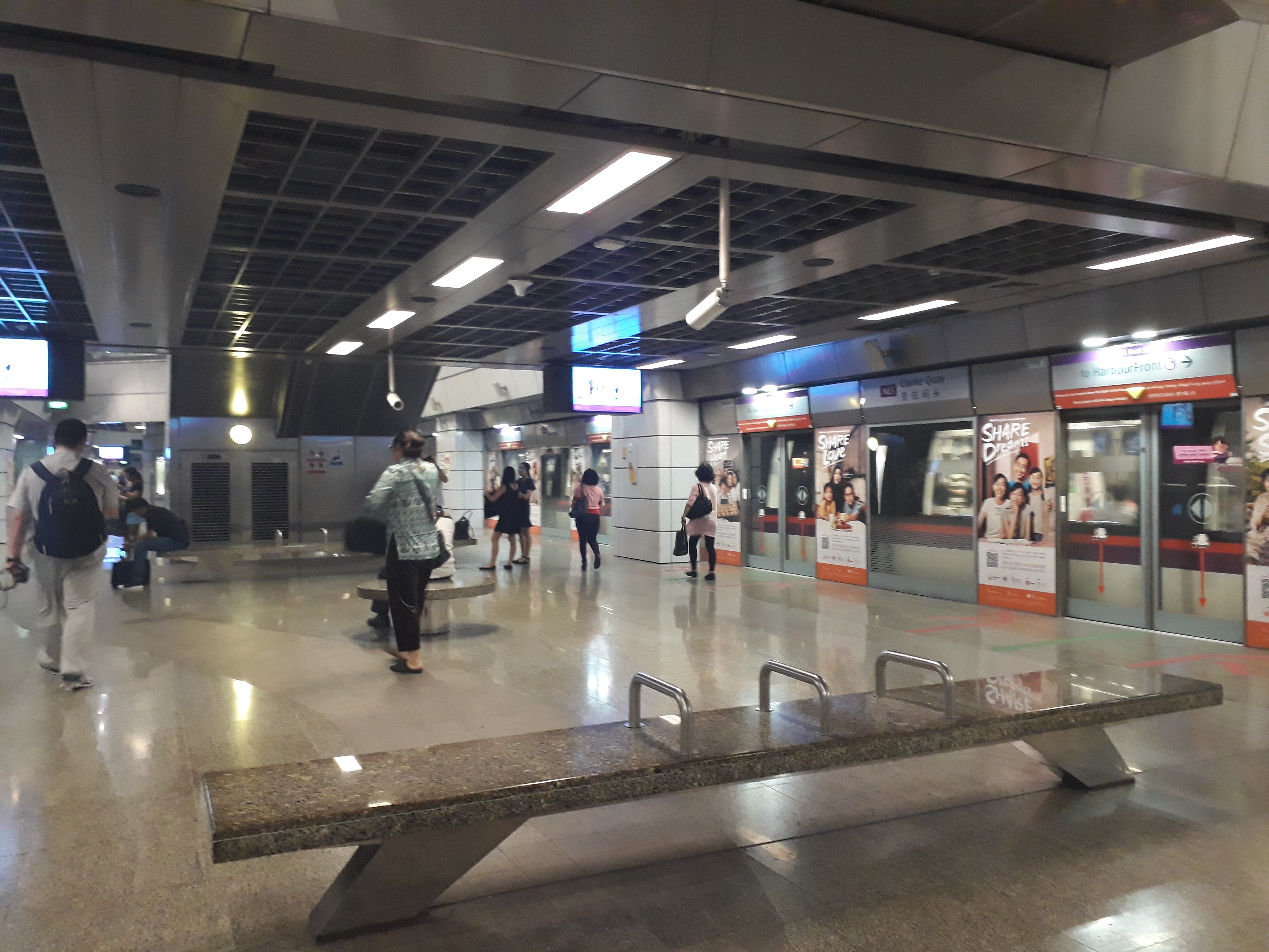 Clarke Quay